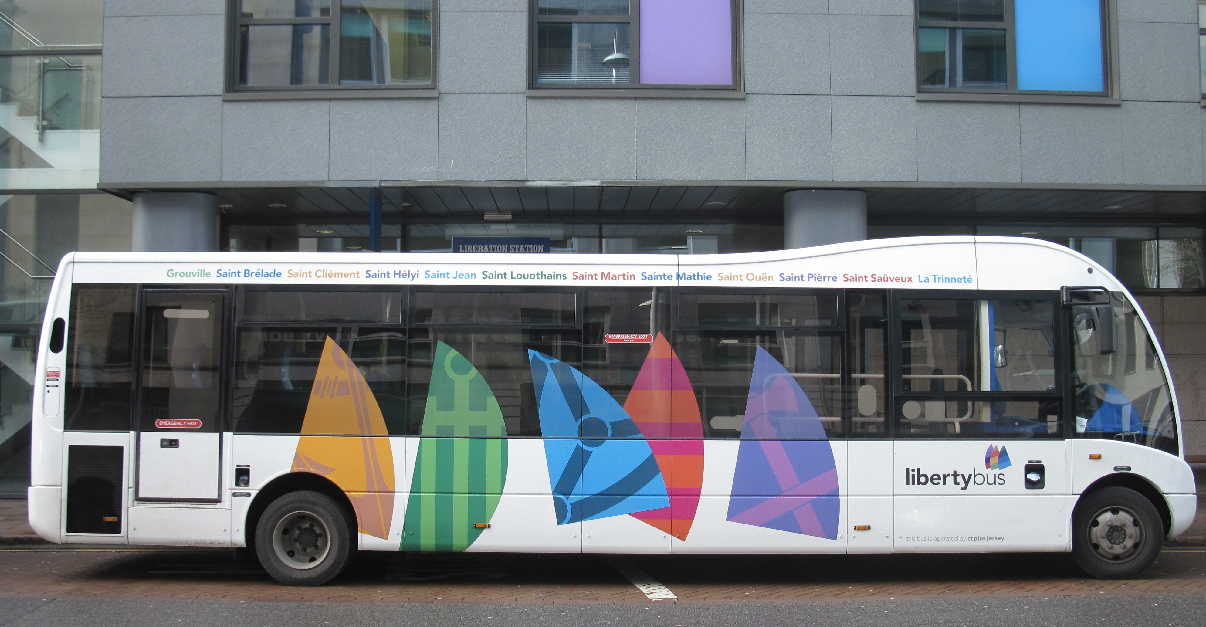 LibertyBus livery incorporates the names of the Parishes in Jèrriais